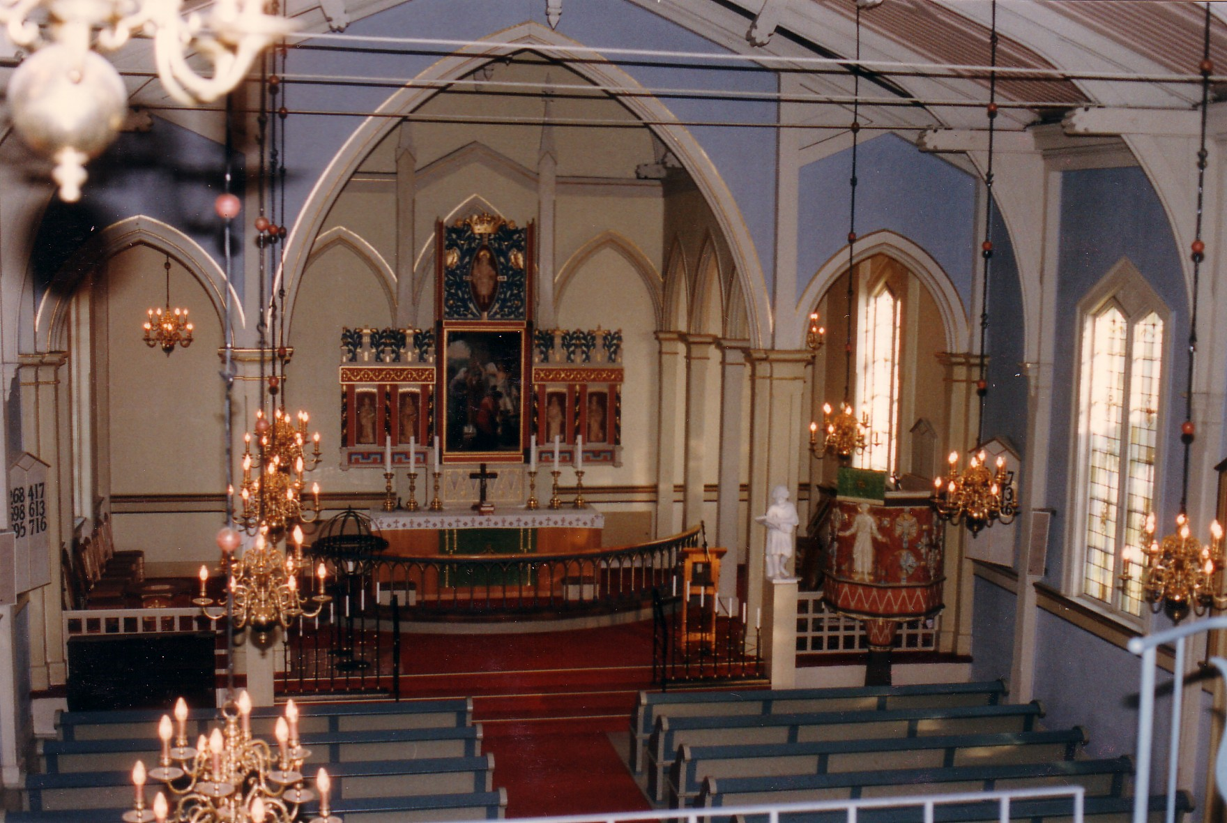 Interior of the old Lutheran Church in Hønefoss, South Norway. Picture from 1996. The church burned down in 2010.